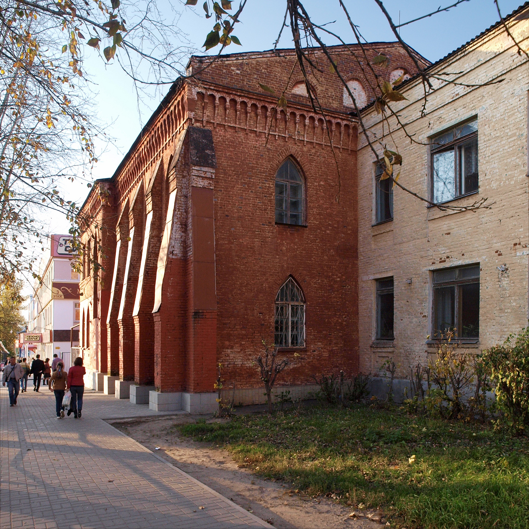 The former synagogue in Kaluga.